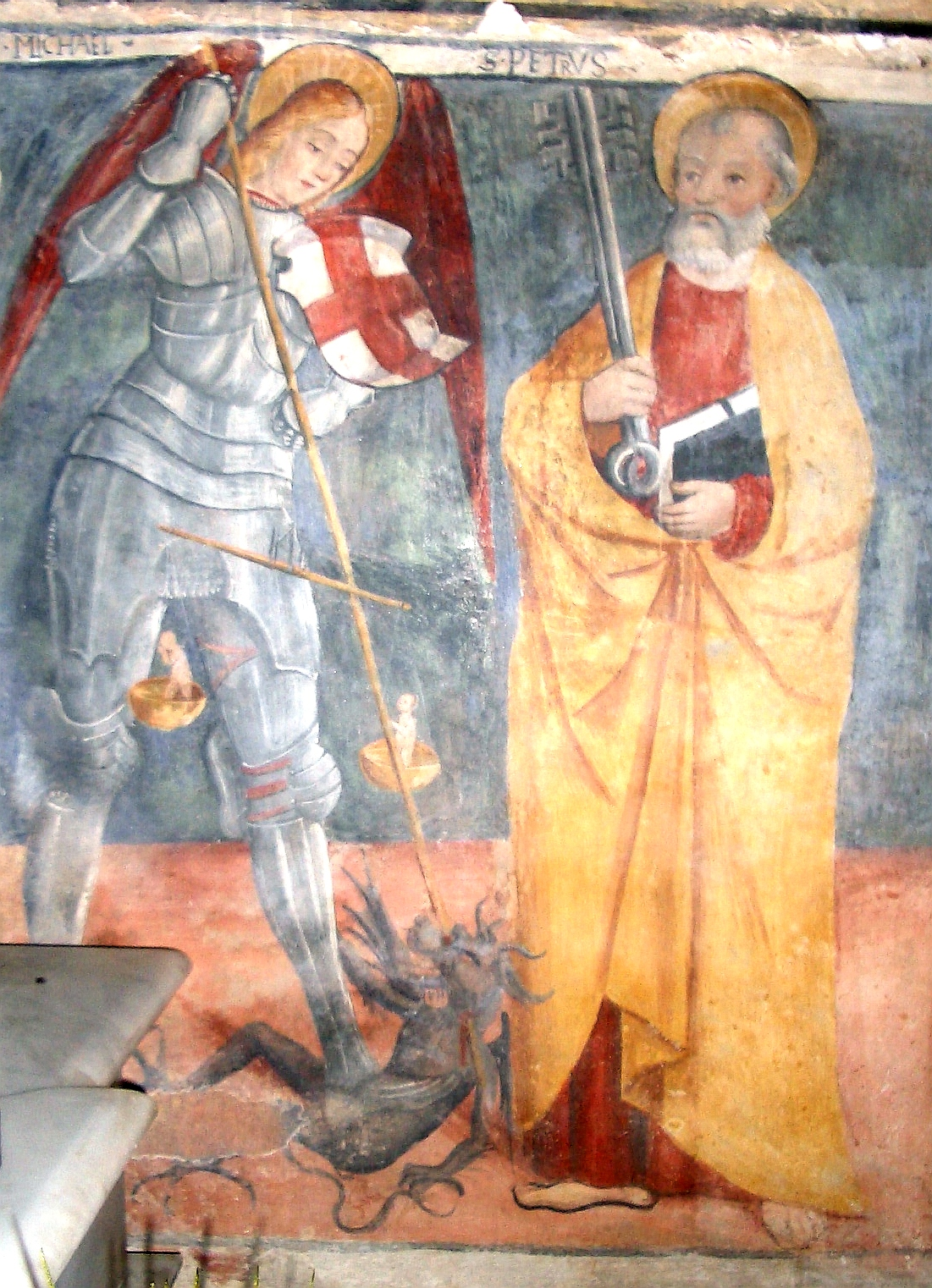 San Pietro Vecchio church , School of Martino Spanzotti, St. Michael and St. Peter, Favria, Turin, Italy